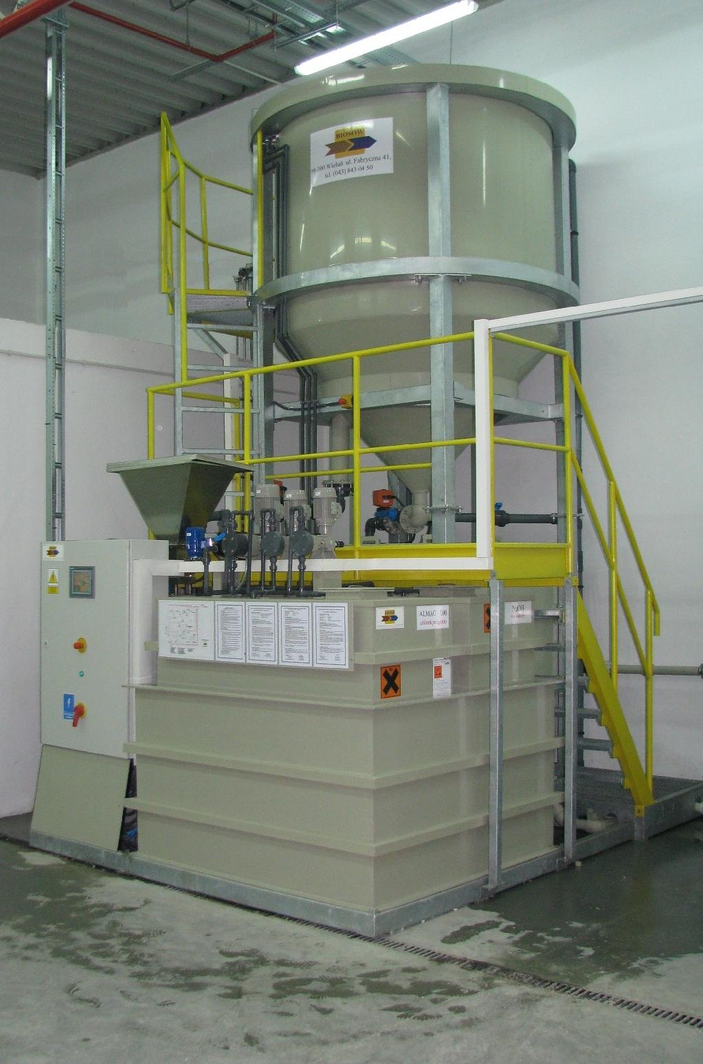 Sequester "biosow-RC15" sequestered with a reagent dosing station (pH adjustment, coagulant, flocculant) and sludge tank. Chemically assisted sedimentation.